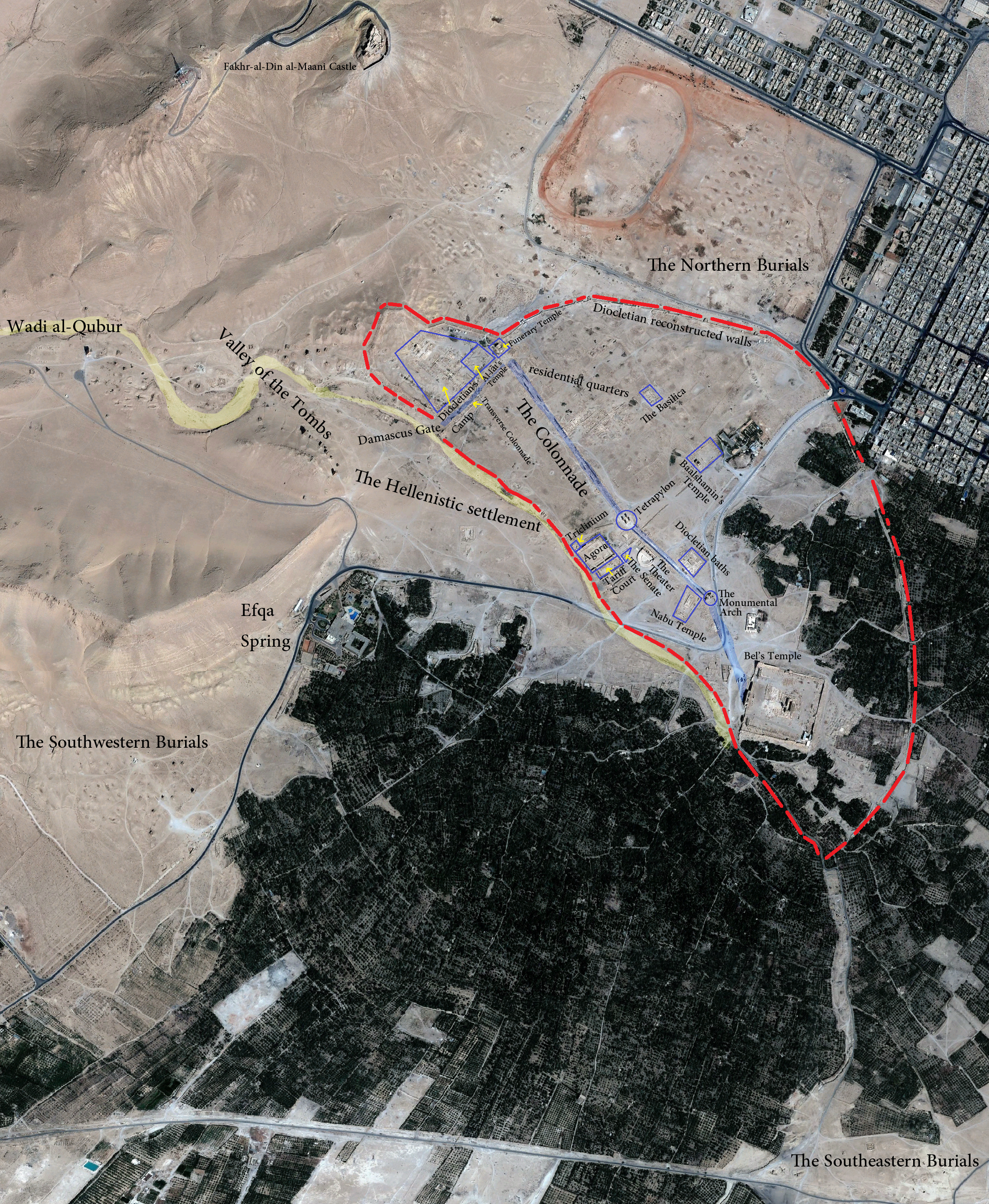 The locations of Palmyra's landmarks University of Southern California, Palmyrene.